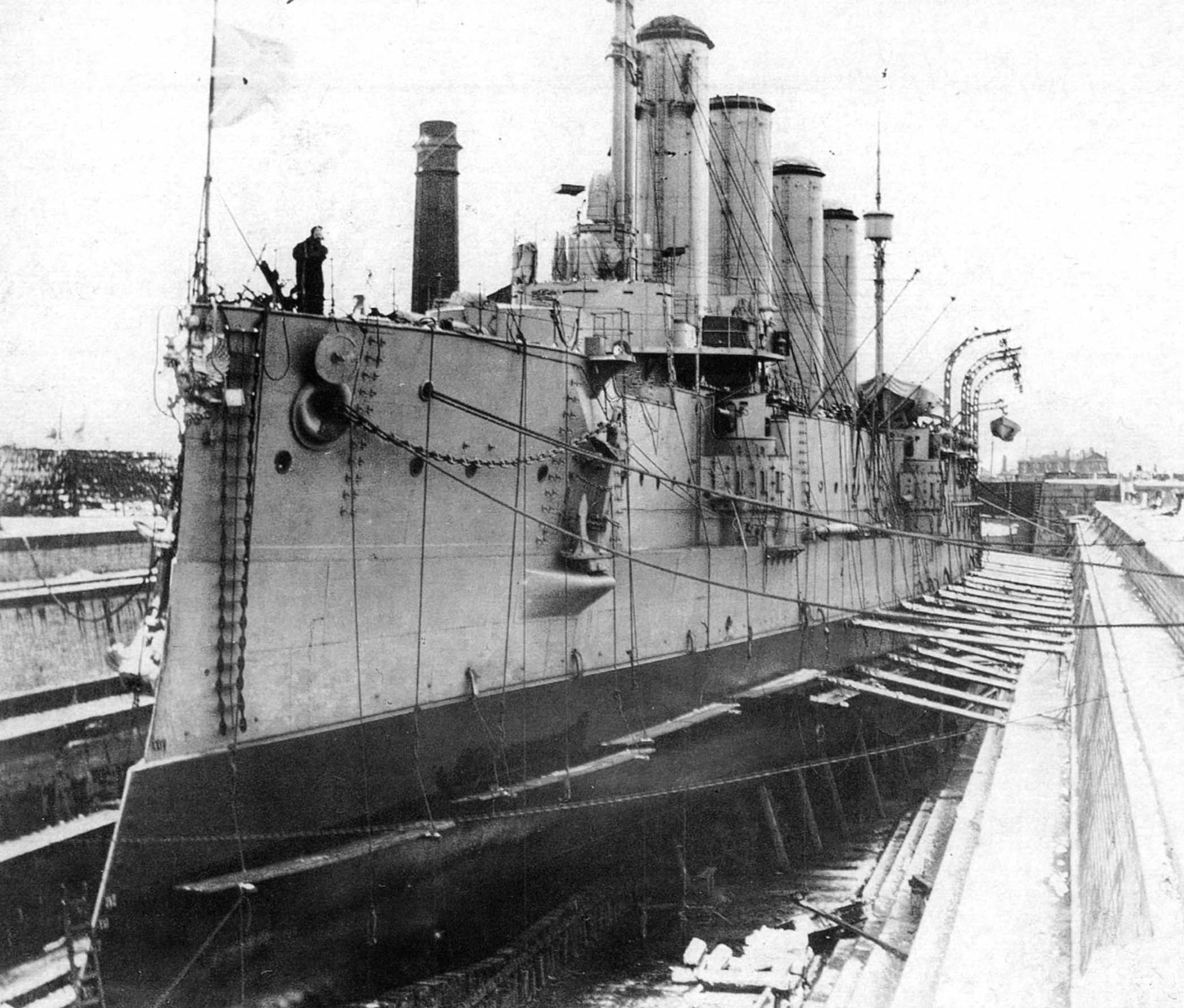 Imperial Russian armoured cruiser Bayan, 1911.